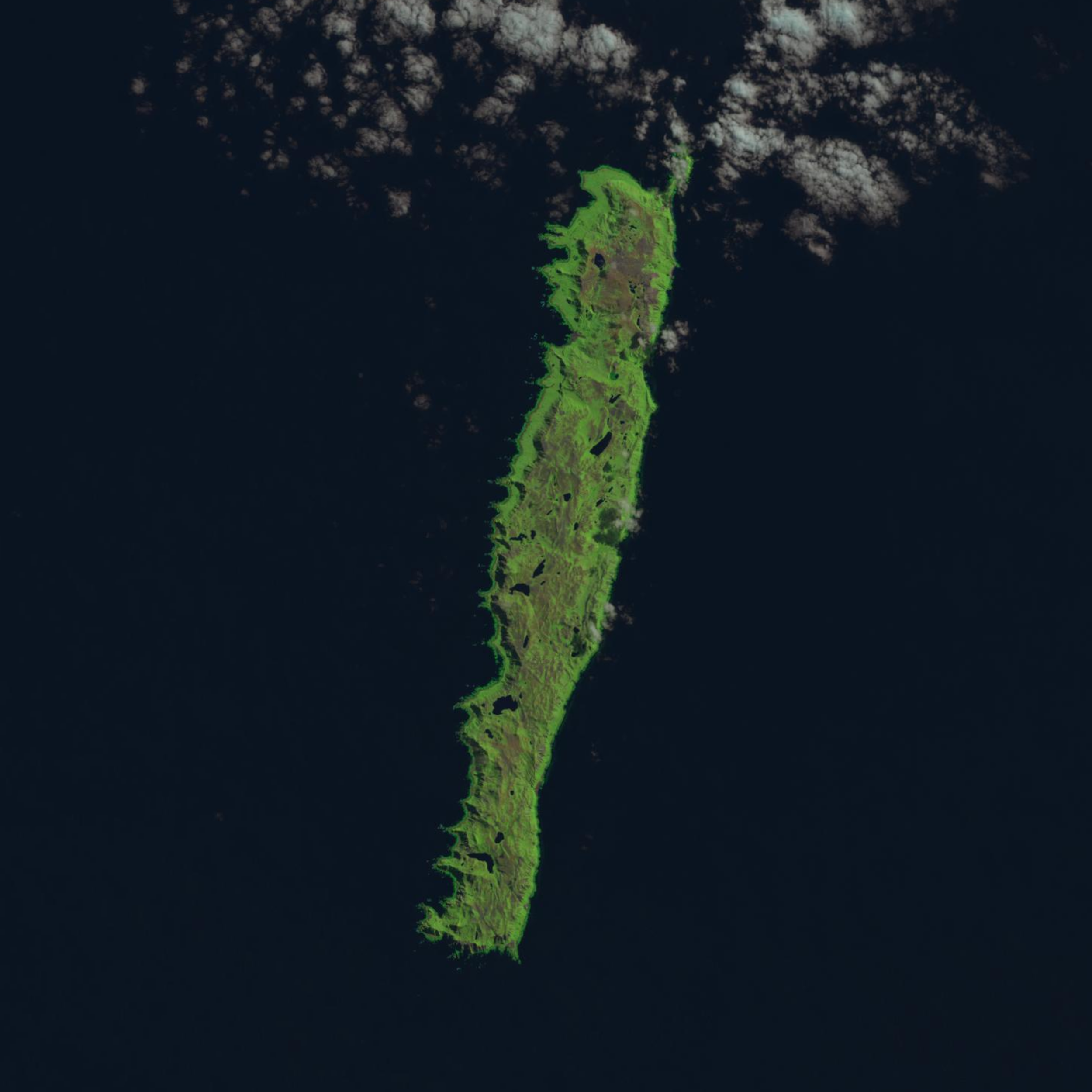 Macquarie Island, southeast of Australia, Landsat 8 image